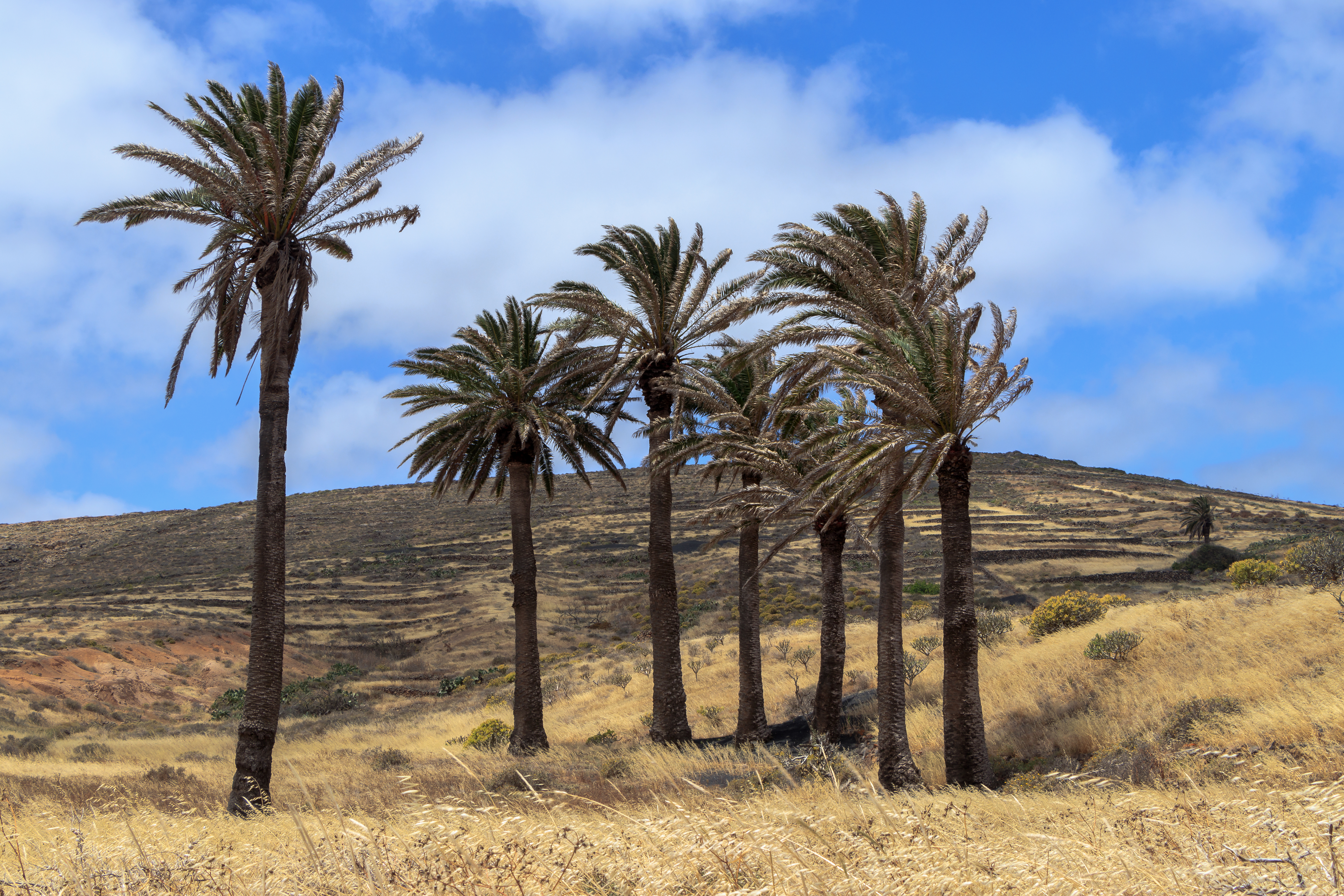 A group of Phoenix canariensis near Haría, Lanzarote, Canary Islands, Spain.